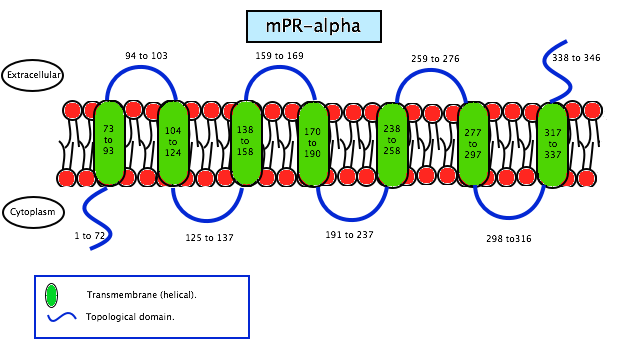 mPR-alpha structure.